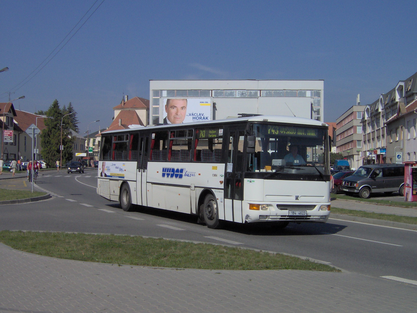 Karosa C 954 bus in Vyškov